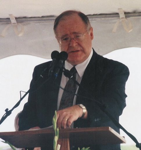 Alexander B. Morrison speaking at the Orlando Temple ground-breaking in 1992.